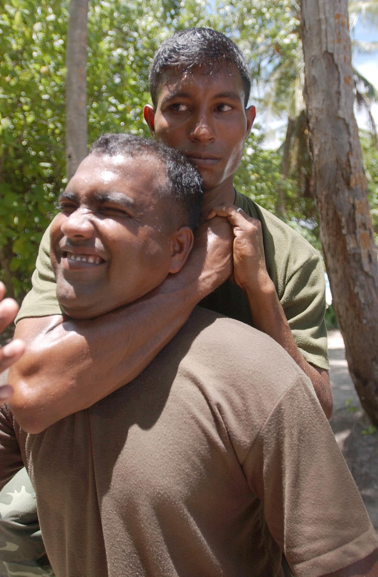 Rear naked choke, (clasped hands varriation), similar to Hadaka-jime.